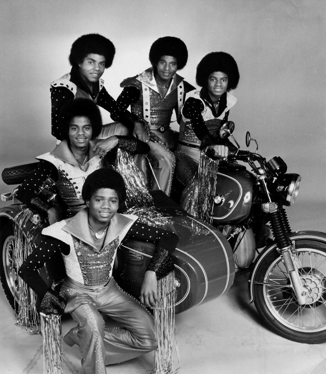 Publicity photo of the Jacksons from their television variety show. All brothers except Jermaine are pictured; he was not part of their television program because of contractual issues. From left, bottom: Randy, Marlon, Tito, Jackie and Michael, who's driving the motorcycle.